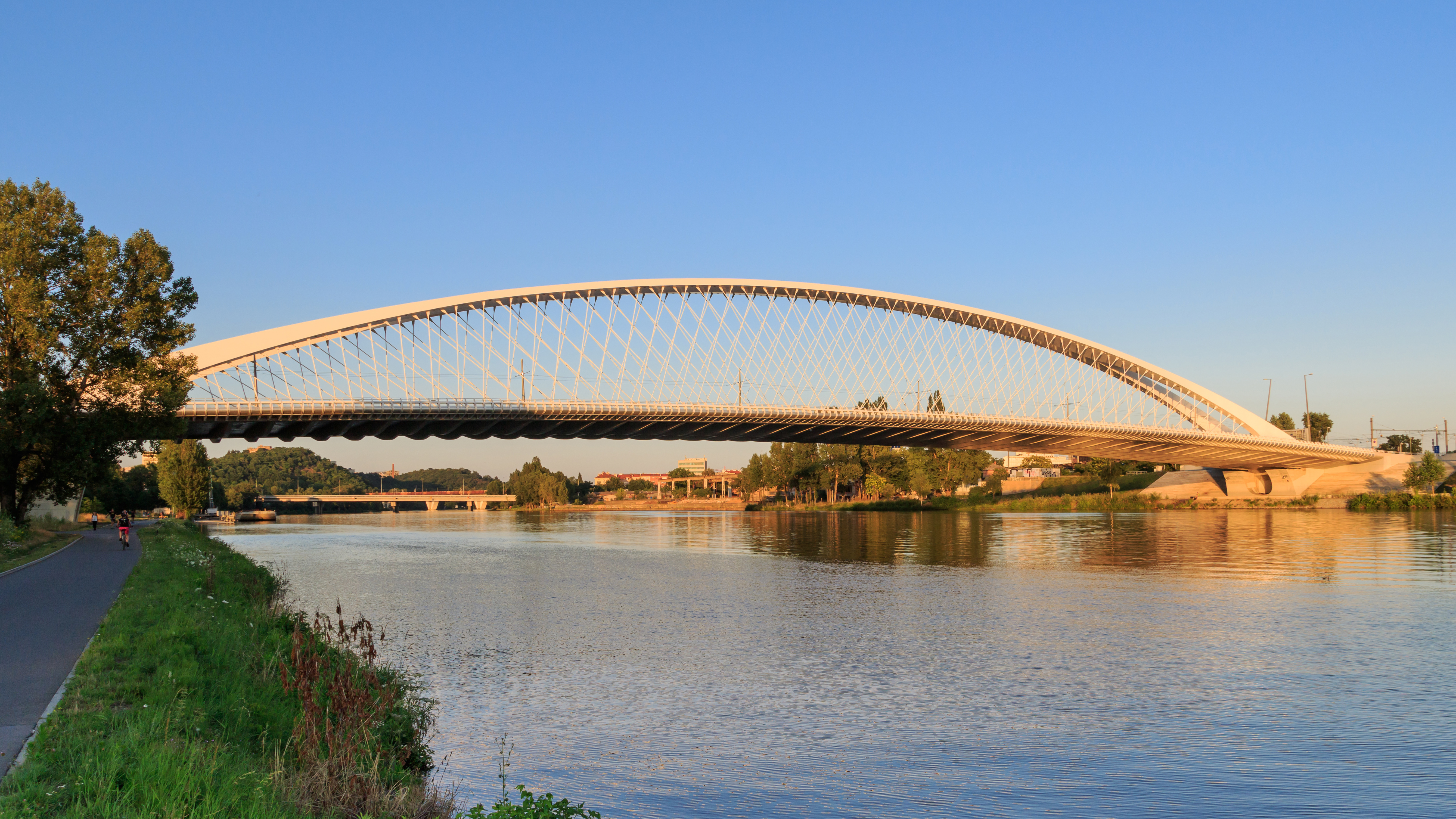 Troja Bridge in Prague (Czech Republic)